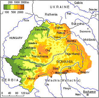 Map of Transylvania, Romania with Banat, Crişana and Maramureş (physical)